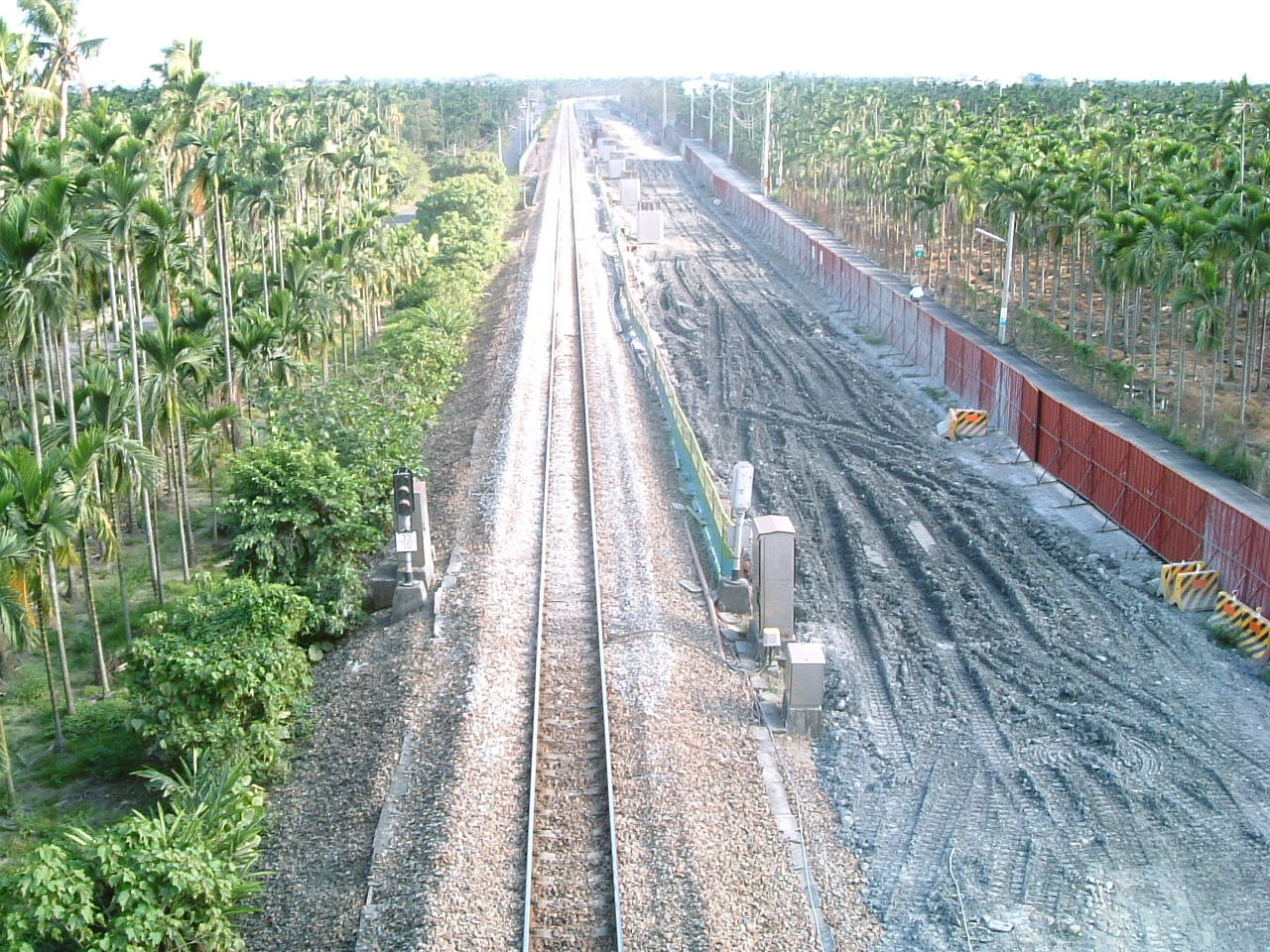 The view of the construction of the railway elevation in TRA Pingtung Line.